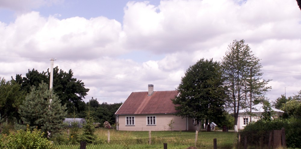 Pageluvis, Šiauliai district, Lithuania